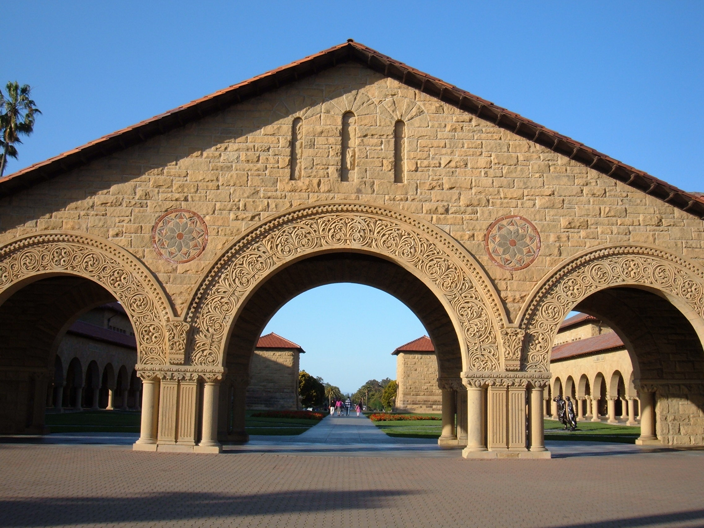 The western archway of the Stanford University Main Quad.